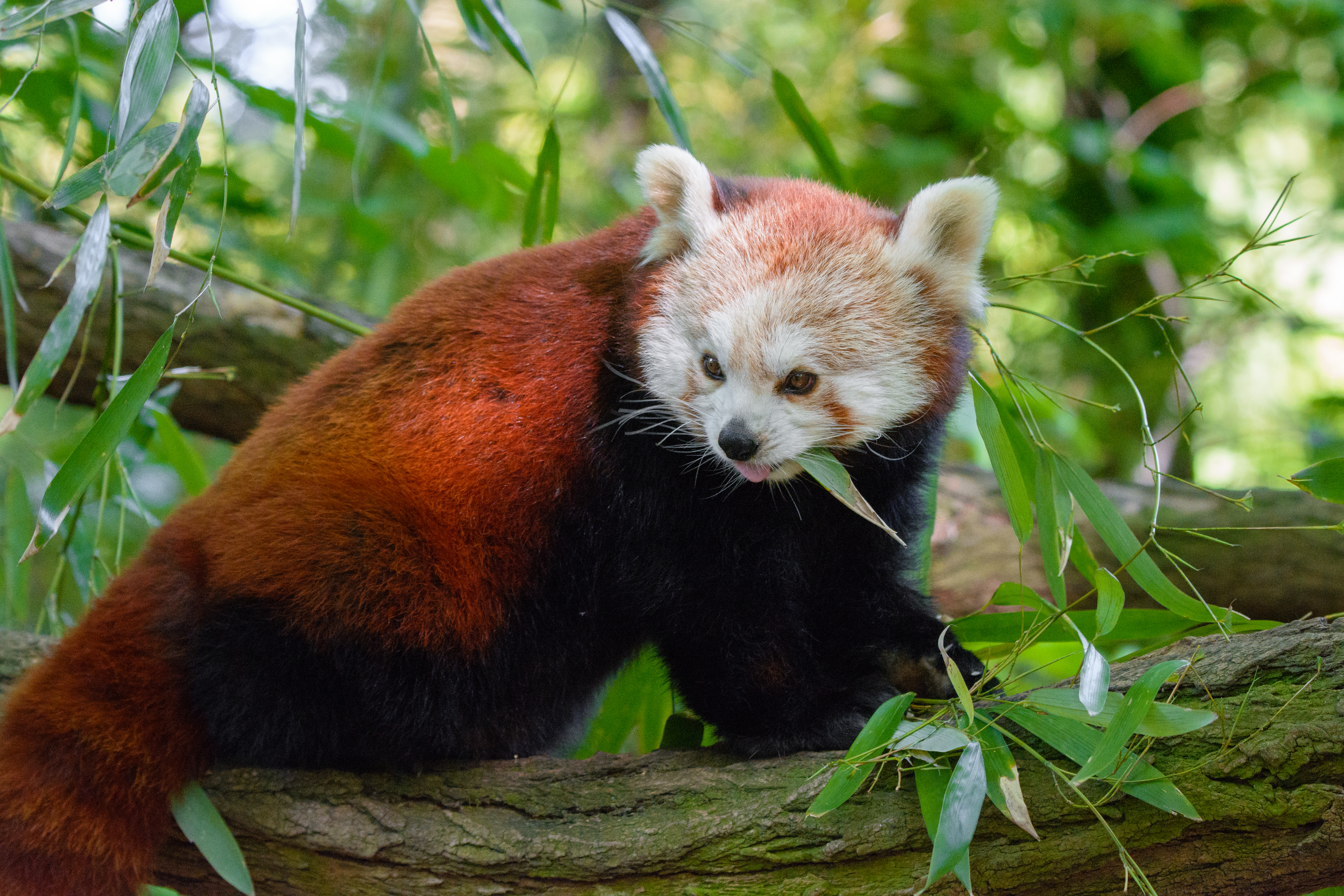 Red Panda